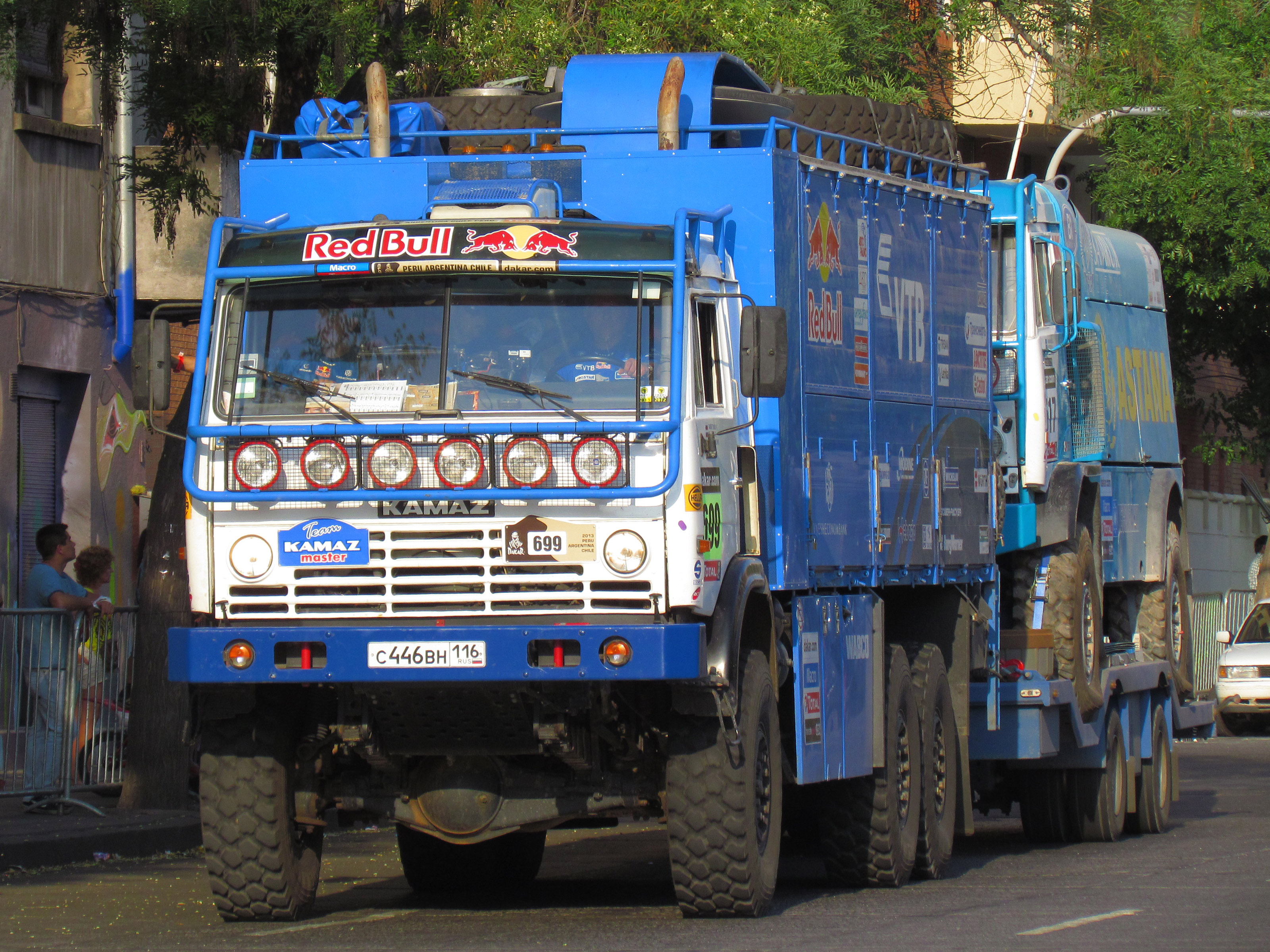 KamAZ-635050 racing truck with KamAZ-4326-9(?) on the trailer